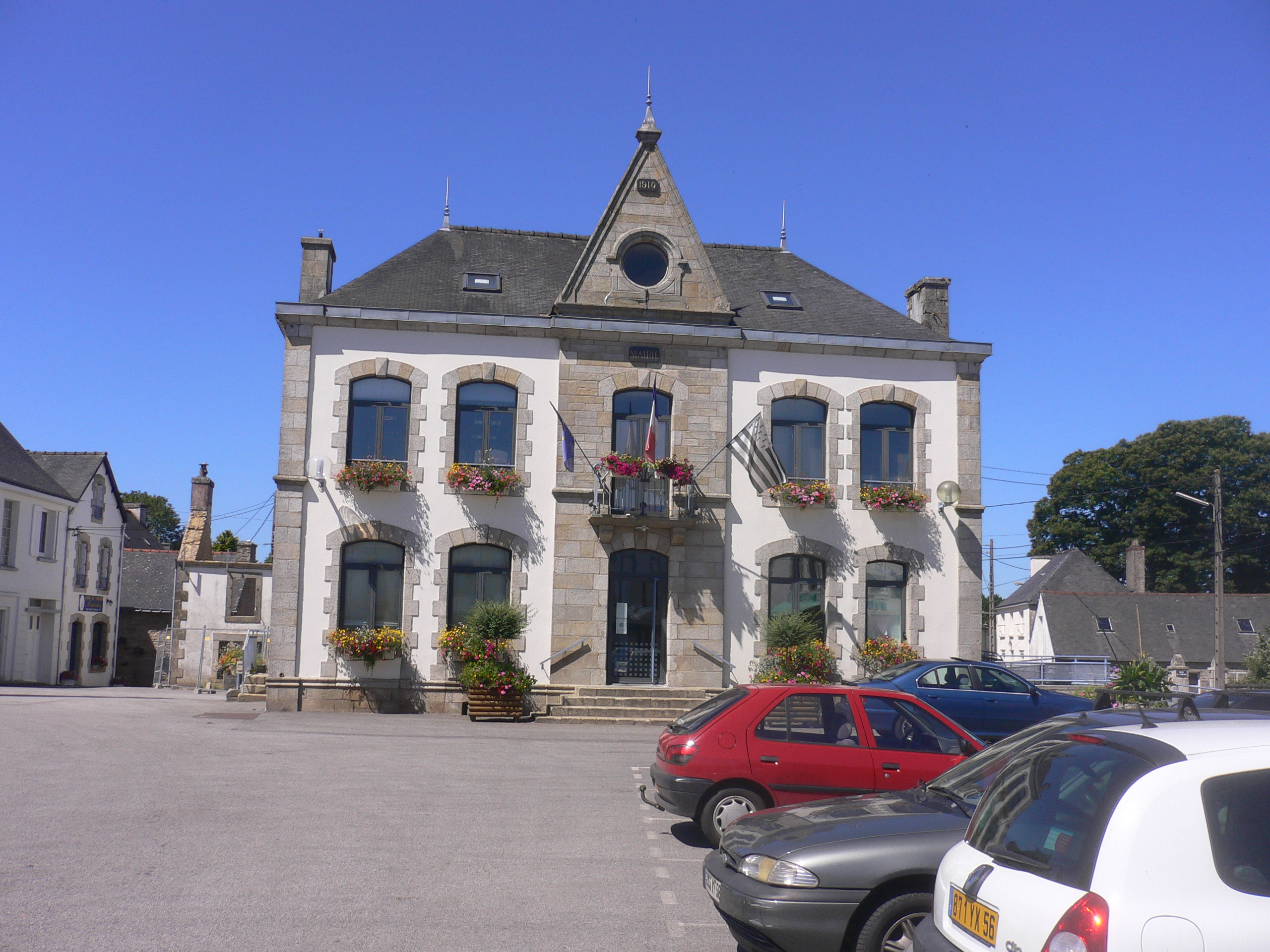 Guiscriff city hall, in Brittany